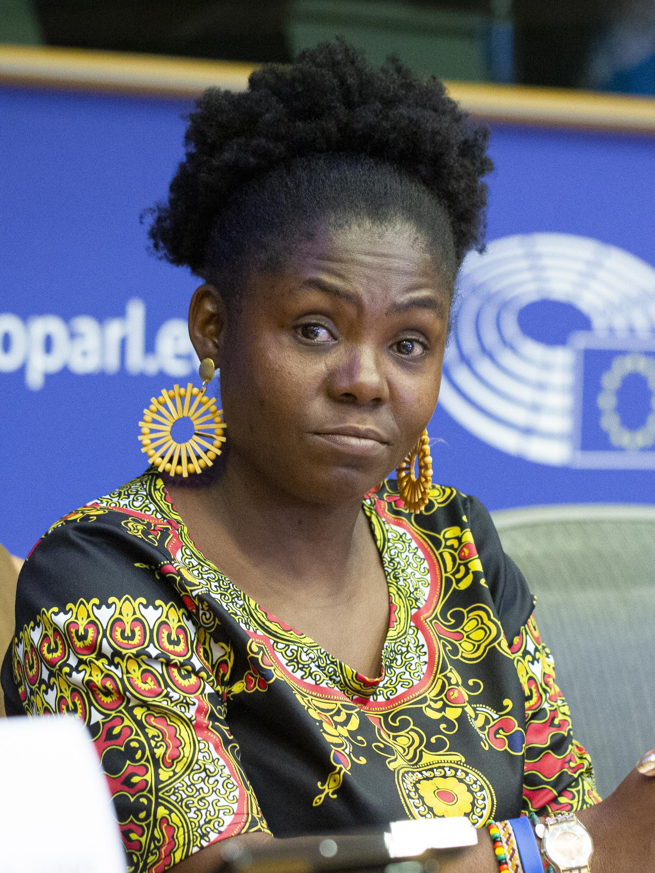 Ecofeminism and the fight of women against extractive industry